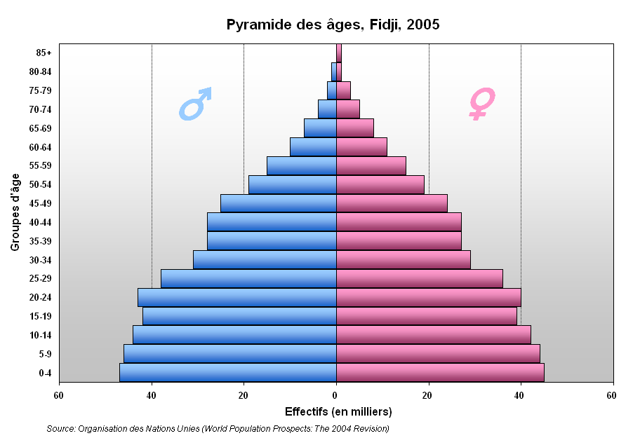 Fiji Population pyramid, 2005